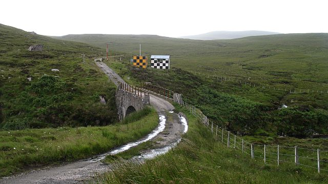 Vedette No. 2 The outer of two sentry posts on the Cape Wrath road. Manned during exercises to control access to the range. At time of visit all was quiet, and I only had the bogs and weather to worry about. The bridge carries the road to Cape Wrath over the Kervaig River. The road predates the lighthouse.